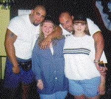 the tag team mosh & trash with 2 fans